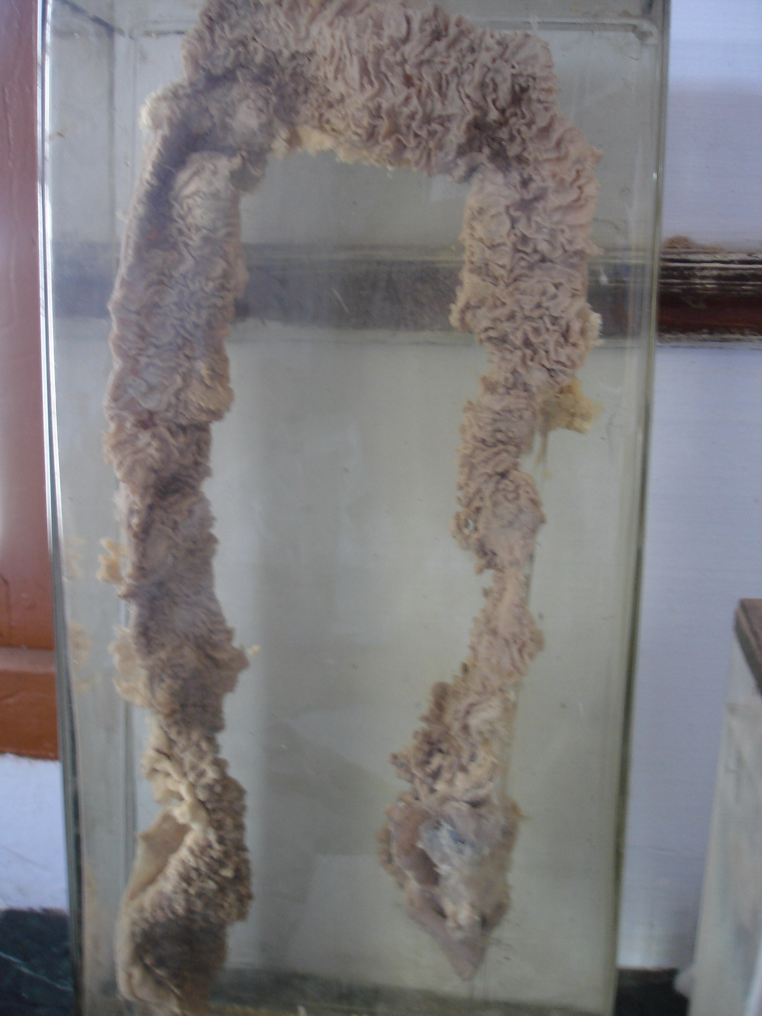 large intestine showing numerous polyps.